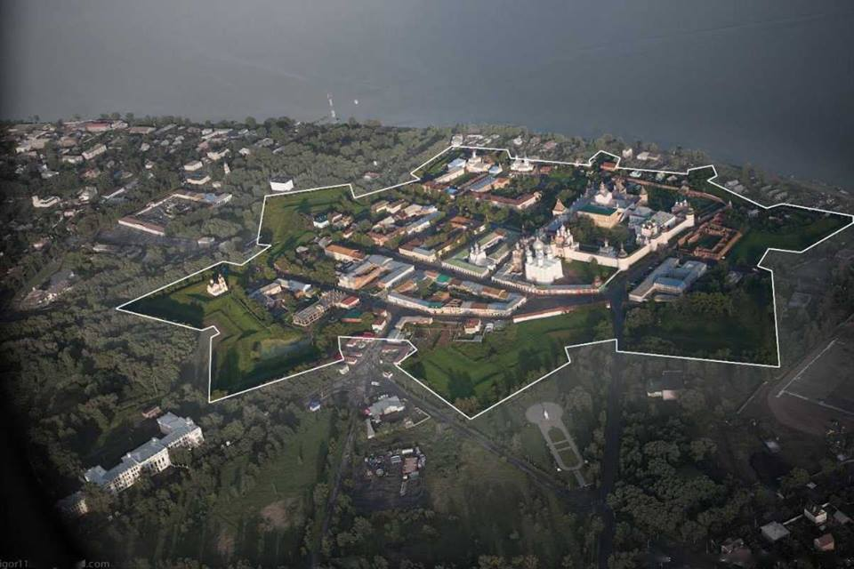 Dutch Fortress in which the Rostov museum in situated